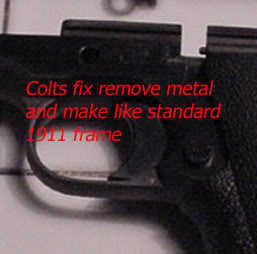 10mm Colt Delta Elite fix to the 'cracking'